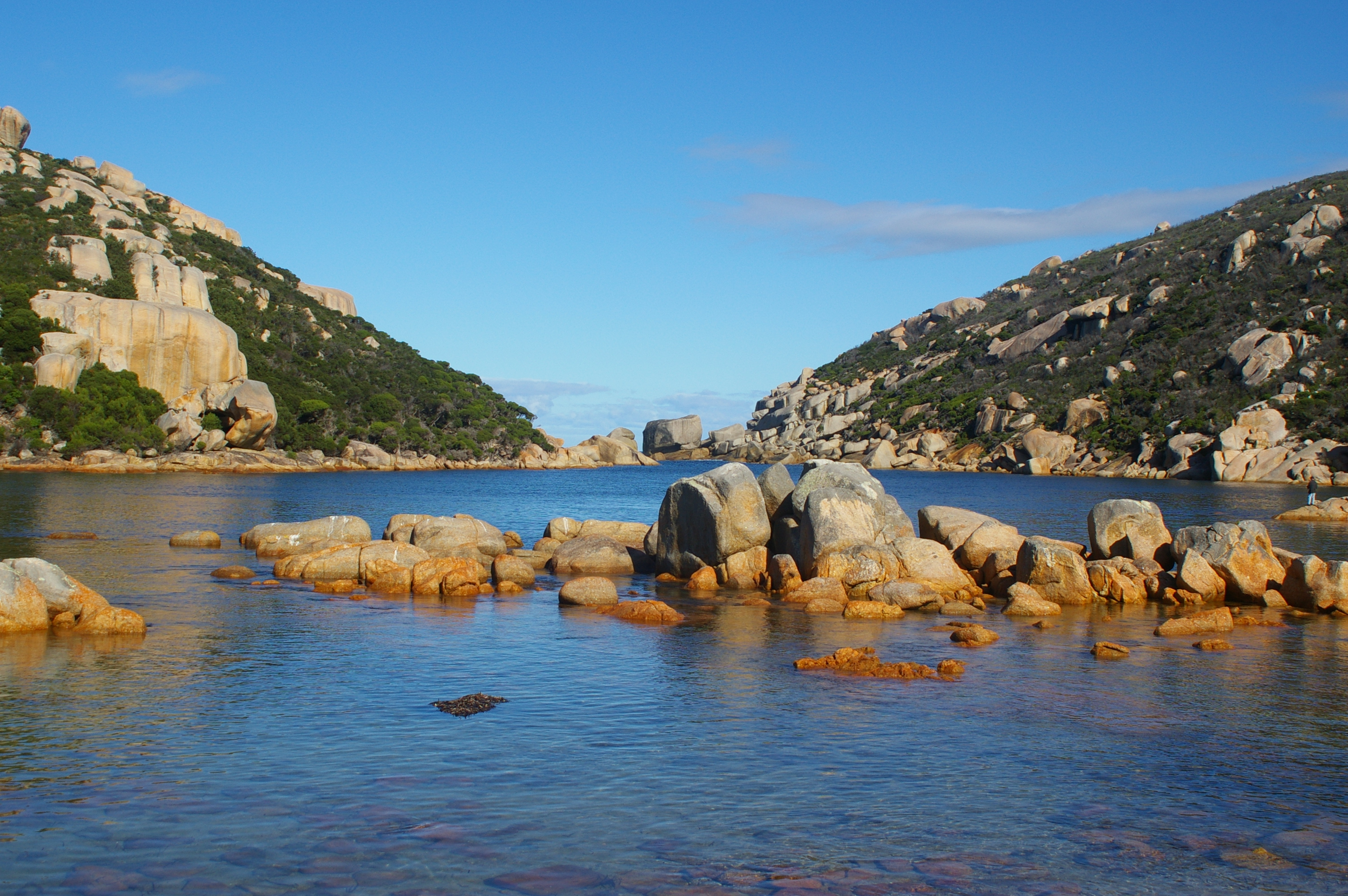 Photo of Waychinicup inlet